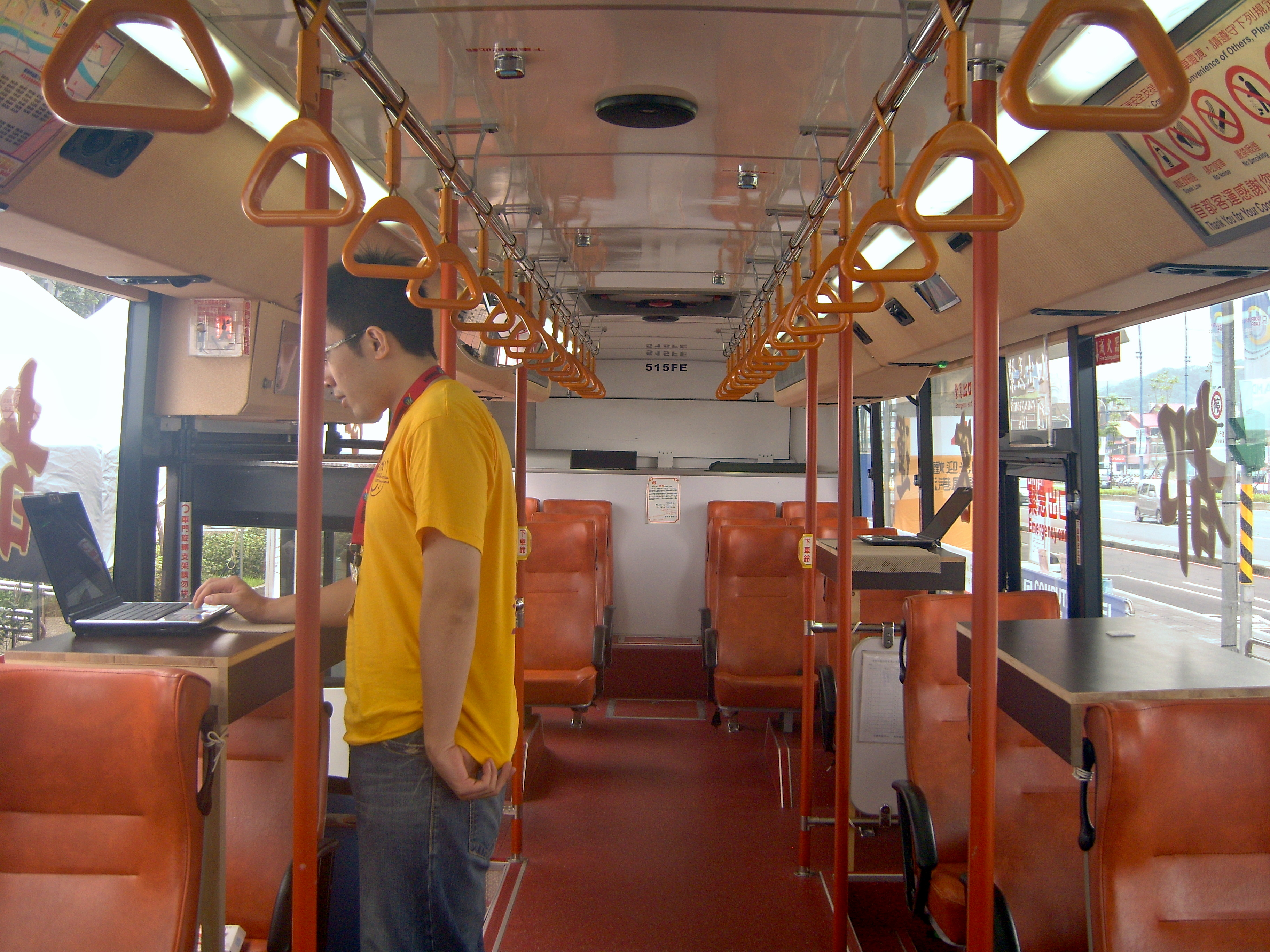 2008 WiMAX Expo Taipei: Interior of Shuttle Bus 515-FE.中文（台灣）: 首都客運2005年HINO ERK2JRL大客車515-FE行駛2008 WiMAX Expo Taipei展場接駁公車，本圖為其後半部內裝。